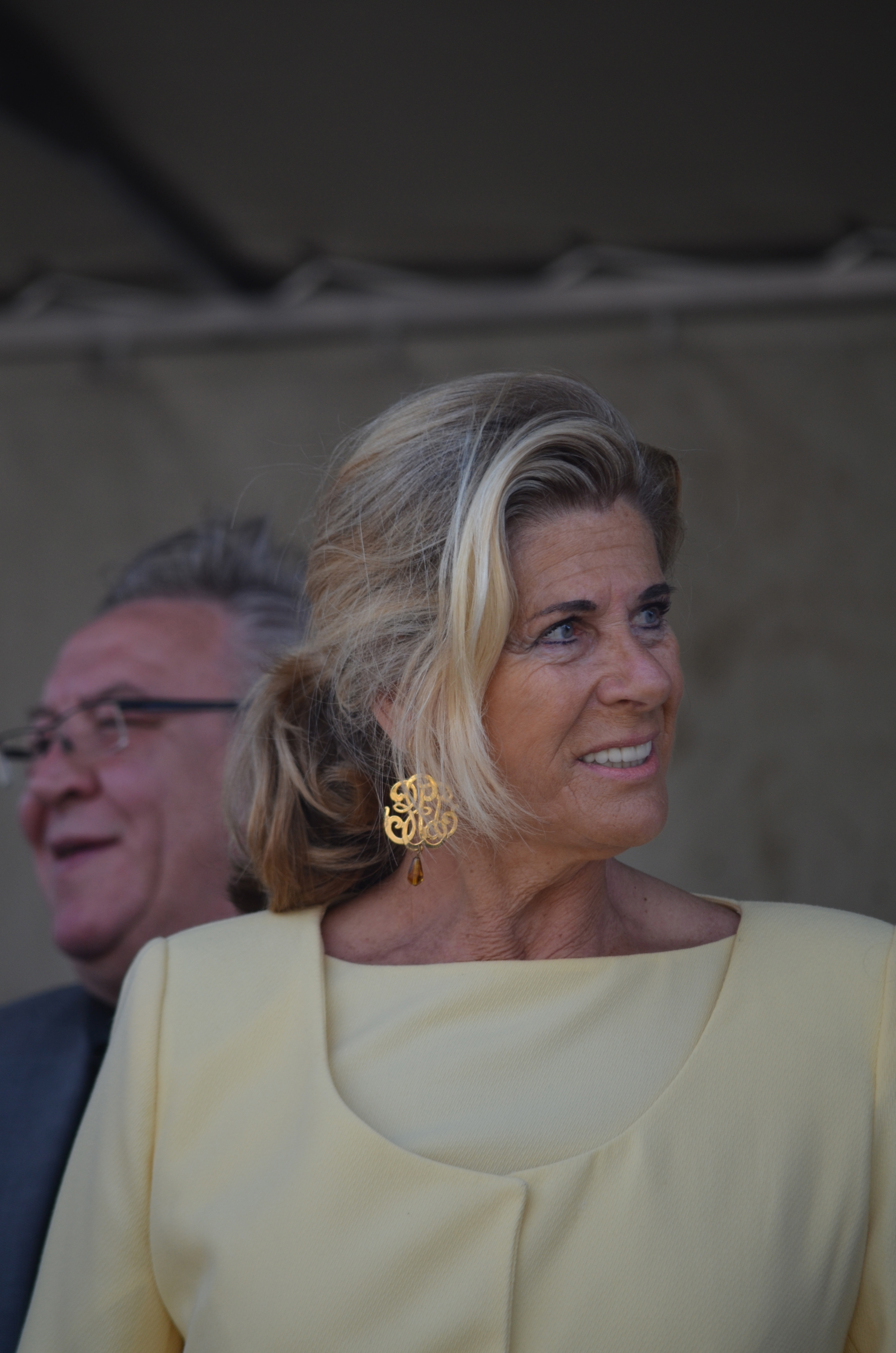 Princess Léa of Belgium